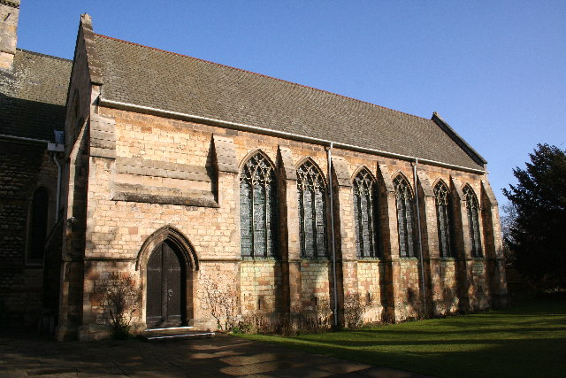 St Peter's in Eastgate parish church, Lincoln, England, seen from the southwest